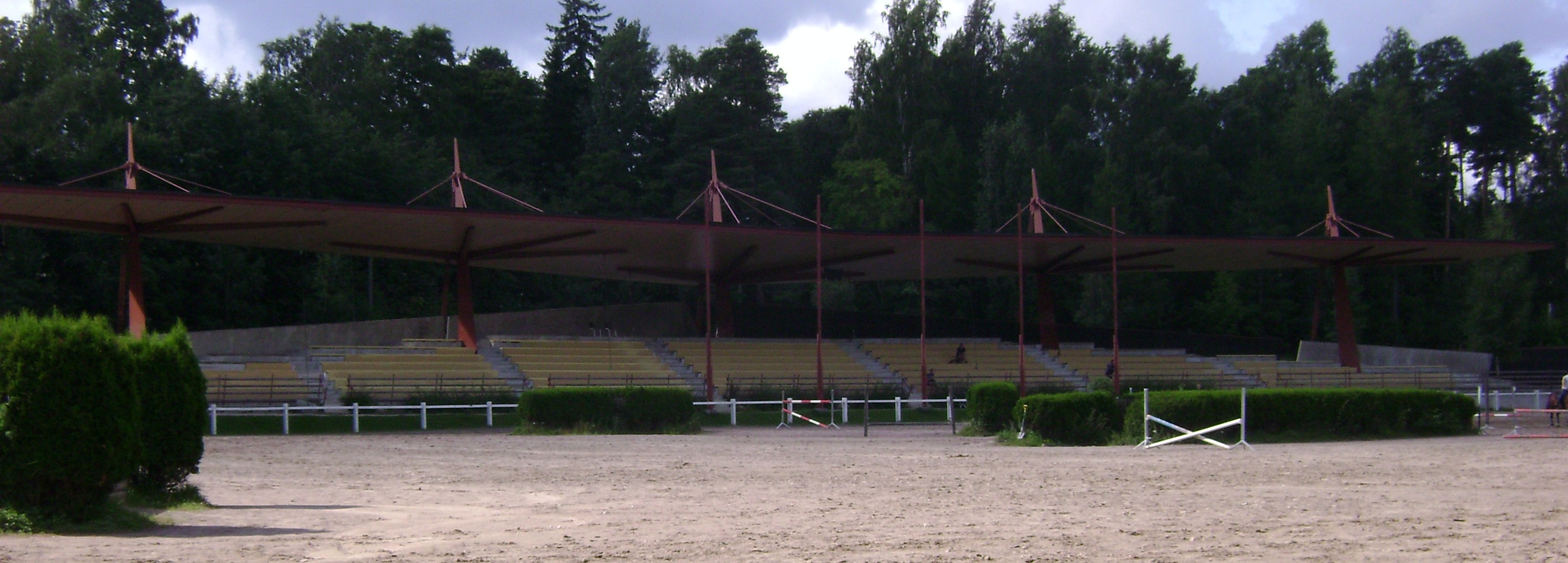 Laakso show jumping venue in Helsinki.